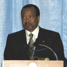 President Paul Biya of Cameroon at the inauguration of the new U.S. Embassy to Cameroon, 16 February 2006.